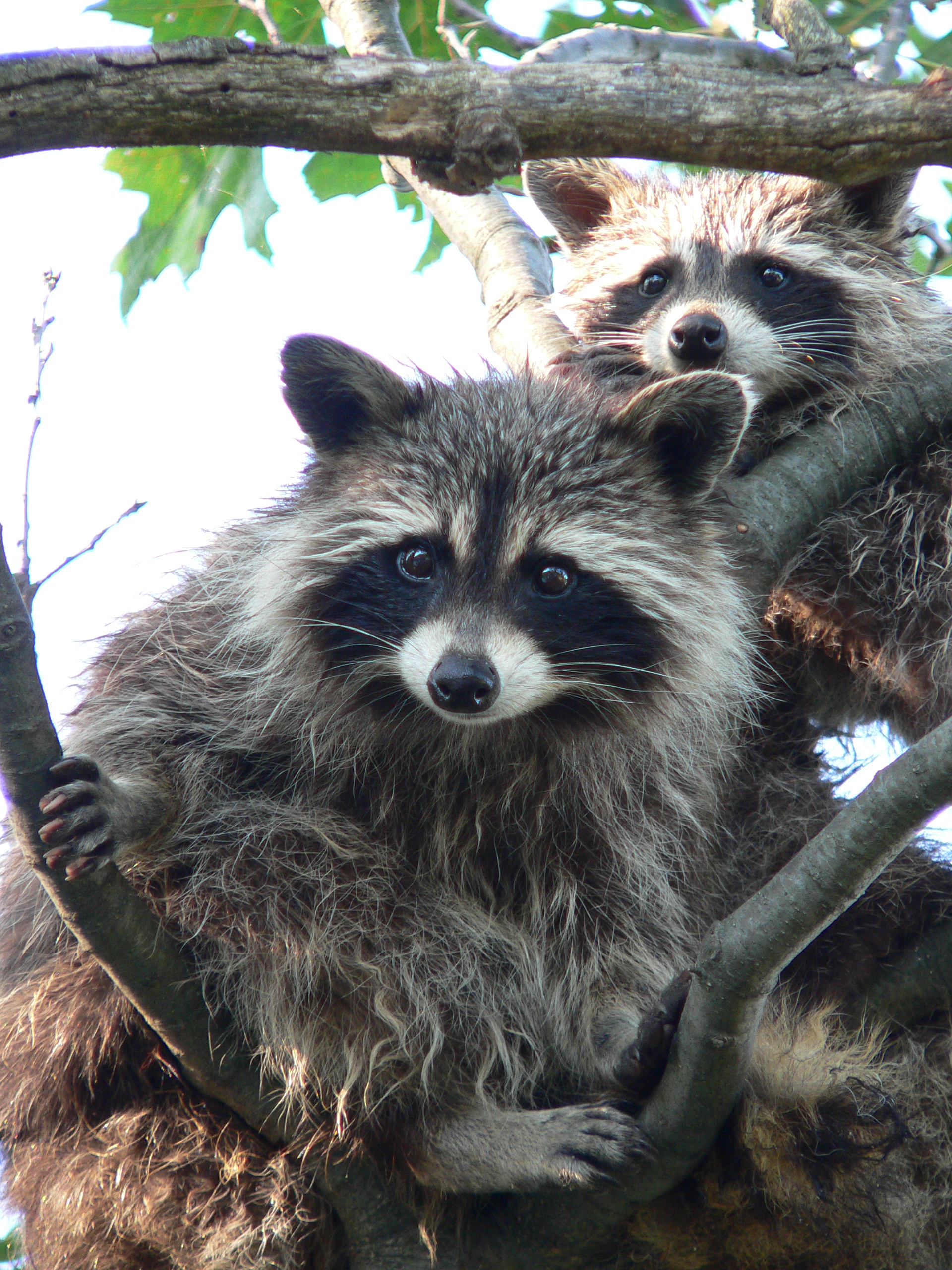 Raccoons at Snug Harbour, Georgian Bay, Ontario, Canada. The dog treed three raccoons at 6:30 am. They spent the rest of the day in the tree napping in various precarious positions while I took photos.